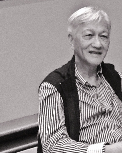 Mr Lee Yee presented at the seminar of the HK Book Fair 2013